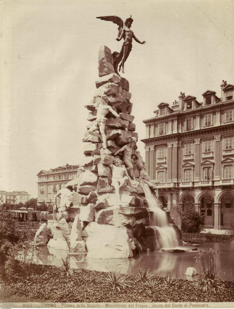 Carlo Brogi (1850-1925) - "Turin - Piazza dello Statuto square - Monument to the Frejus pass - Created by Count Panissera". Catalogue # 8106. Around 1900. Today.